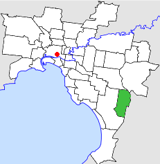 Location of the City of Dandenong (which existed prior to 1994) within Melbourne.